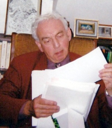 Picture of Grattan-Guinnes in Spring 2003